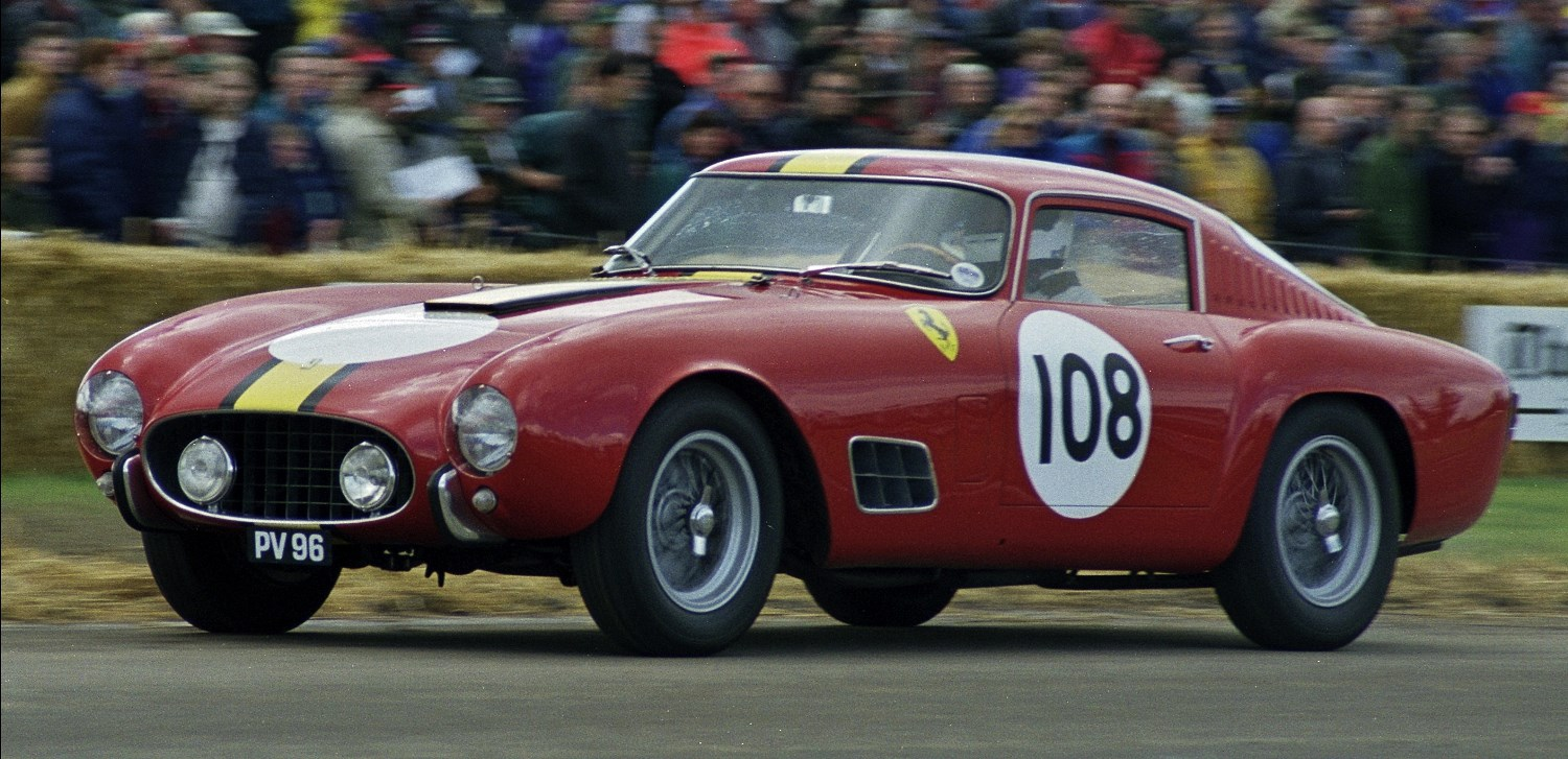 A Ferrari 250 GT LWB Berlinetta Tour de France "14 louvre". This car is s/n 0677GT, with registration plate PV 96 and painted in Ecurie Francorchamps colours, taking part to the 1997 Goodwood Festival of Speed.